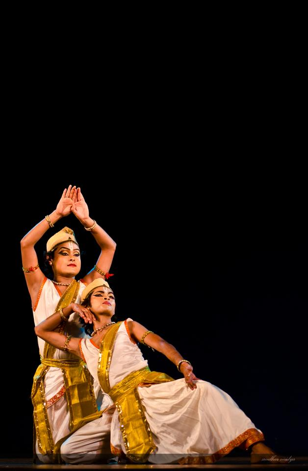 Bishnu Sayana